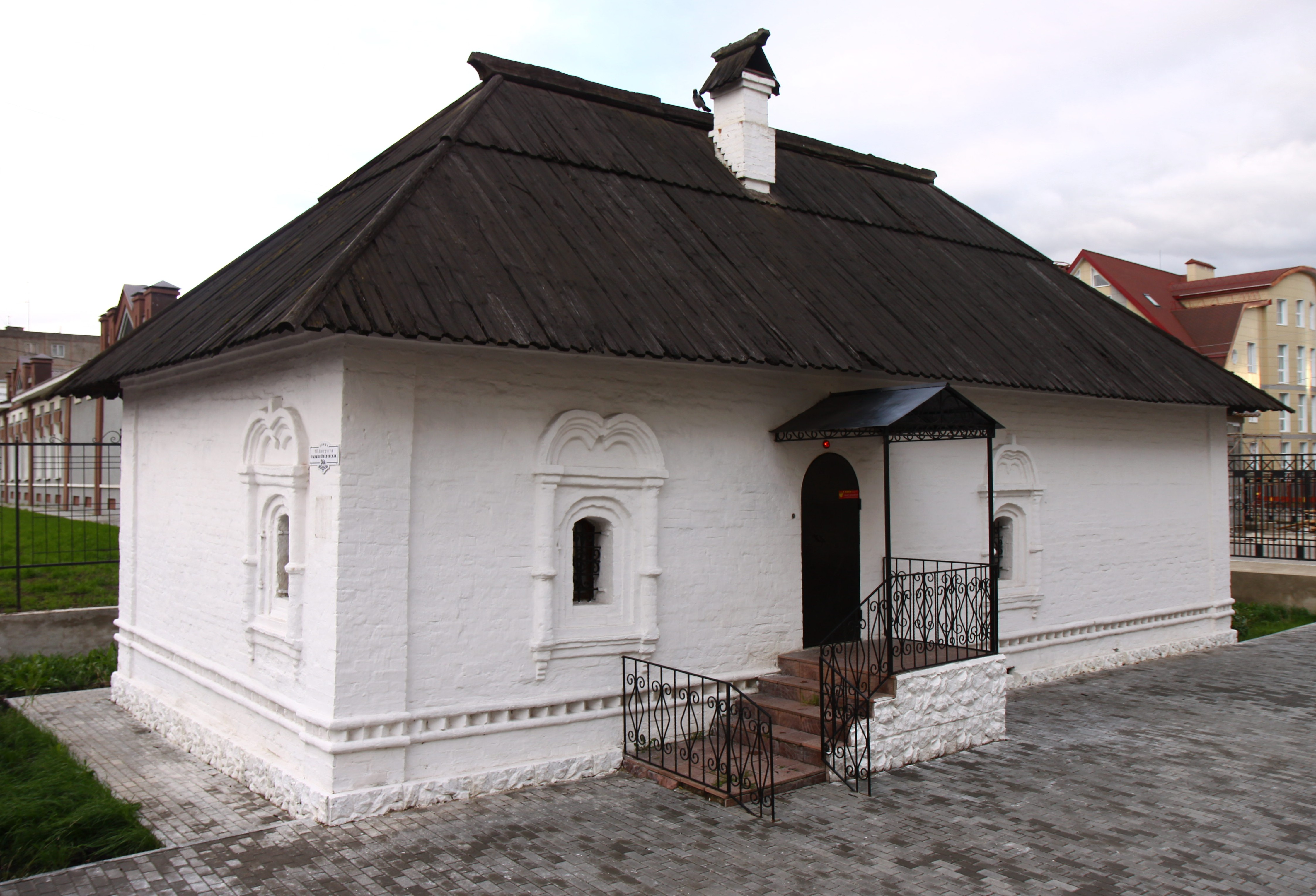 Schudrov palatka - oldest Ivanovo building